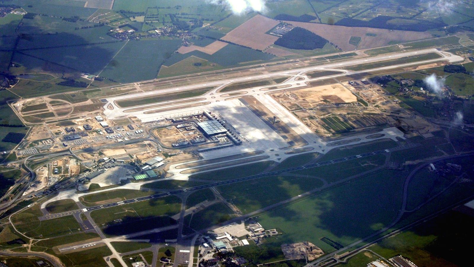 Berlin Brandenburg Airport – June 2011